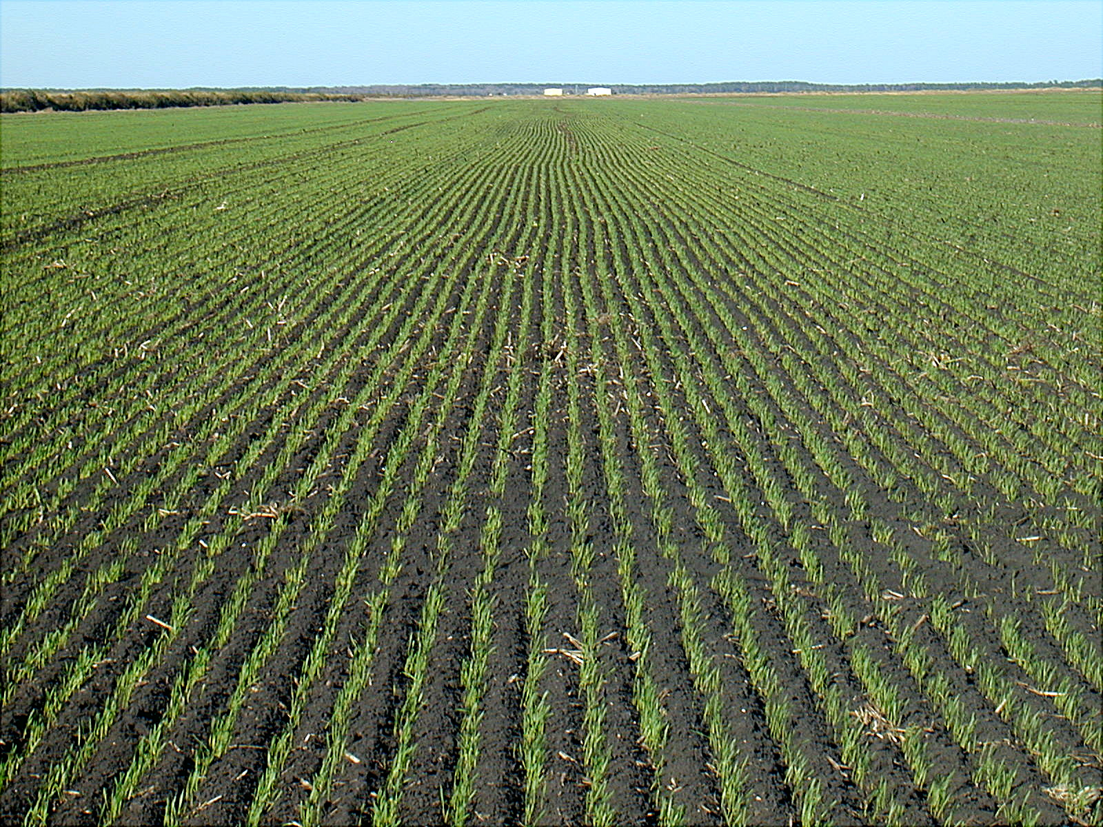 Germination of winter wheat at Open Grounds Farm in Beaufort, North Carolina